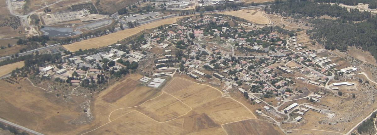 Naham, a moshav in Israel.